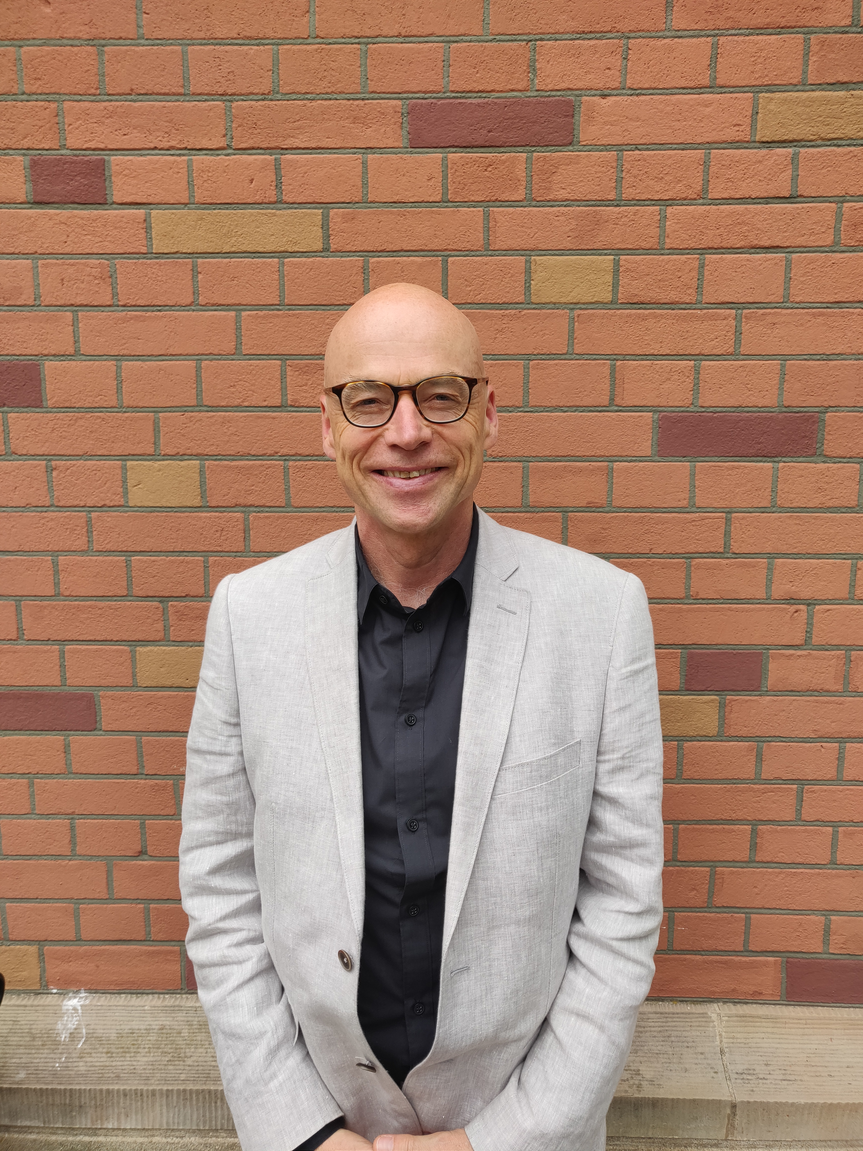 German organist and conductor Johannes Skudlik. After a performance at Holmen Church in Copenhagen.